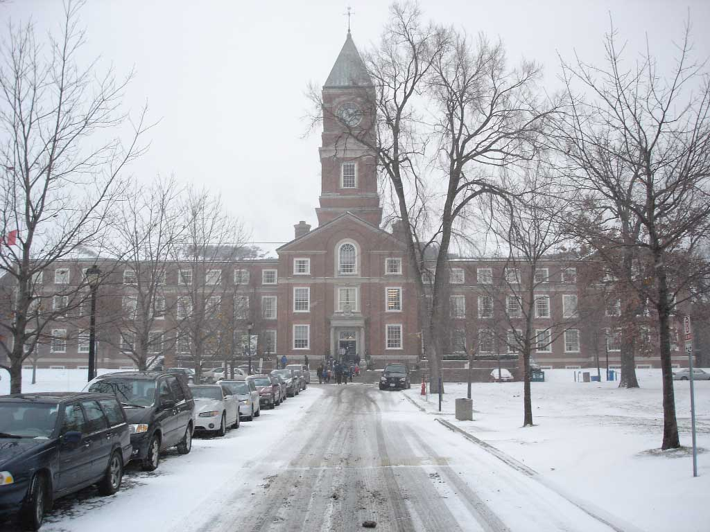 UCC's main Upper School building on a snowy morning. Taken 6/12/04, by myself.